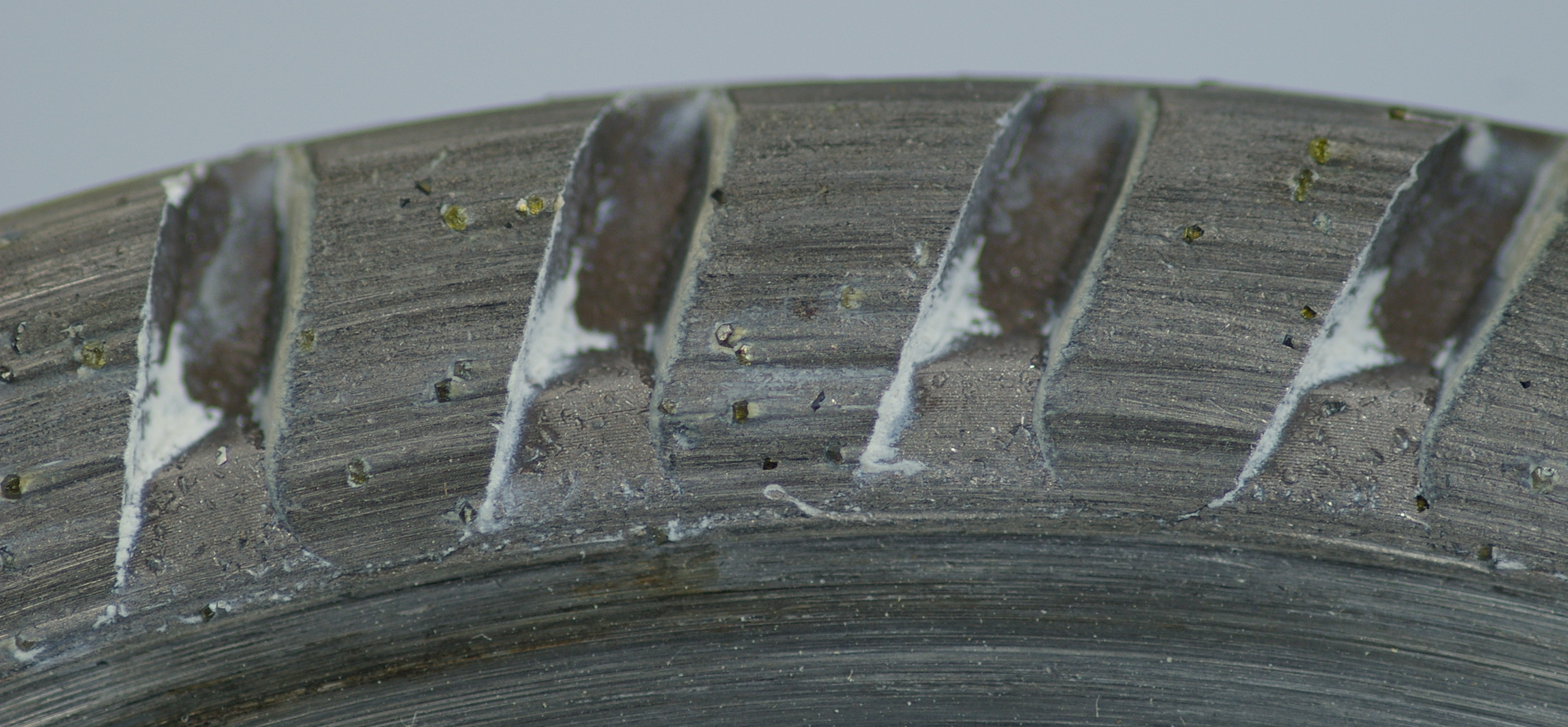 A macro of a diamond blade. This is a metal blade with small diamonds embedded into it.